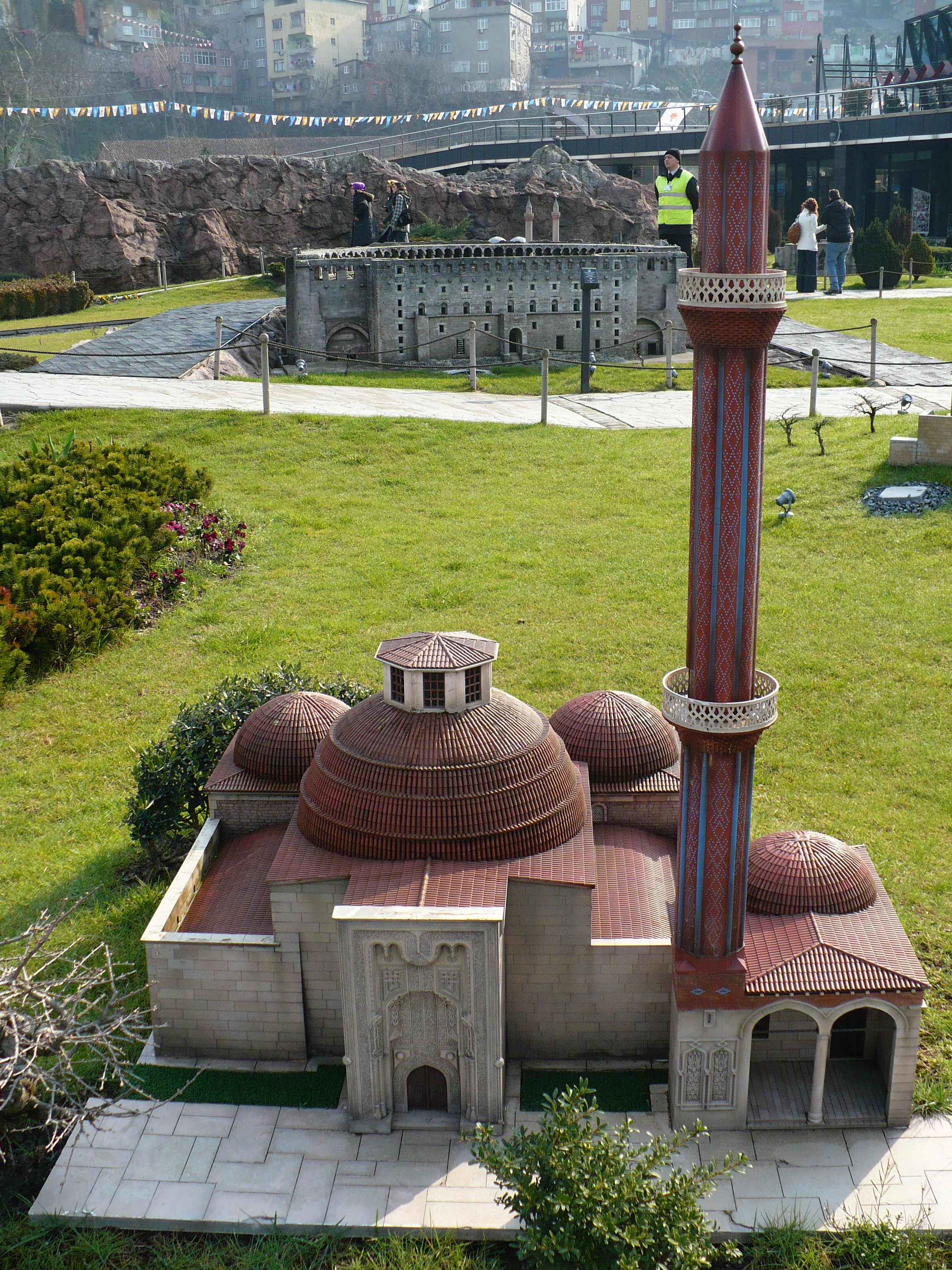 Thin Minarets Madrasa in Konya.